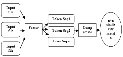 Мөрөөр хайх алгоритмын архитектур.